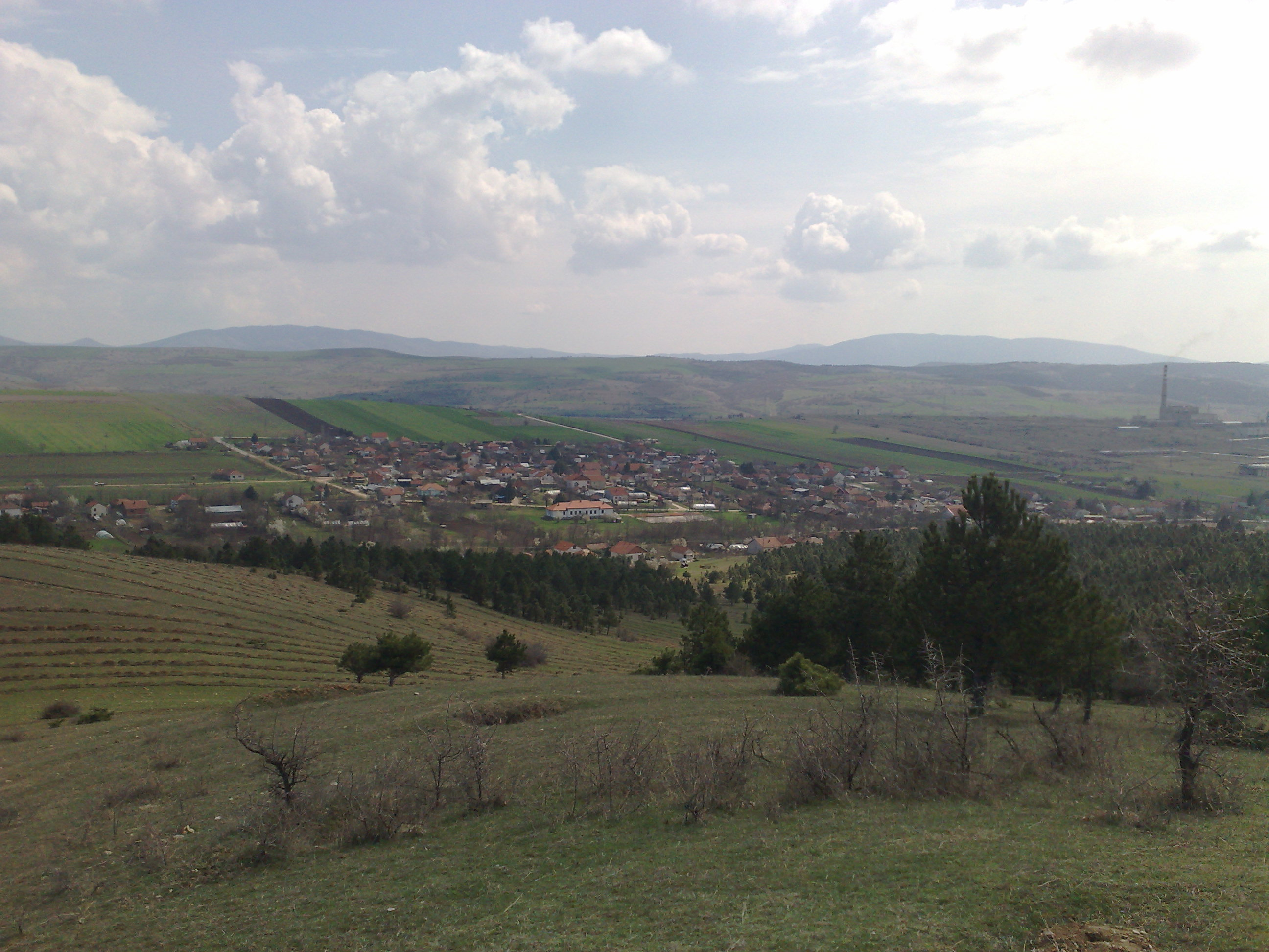 village of Mrshevci, near Skopje, Macedonia